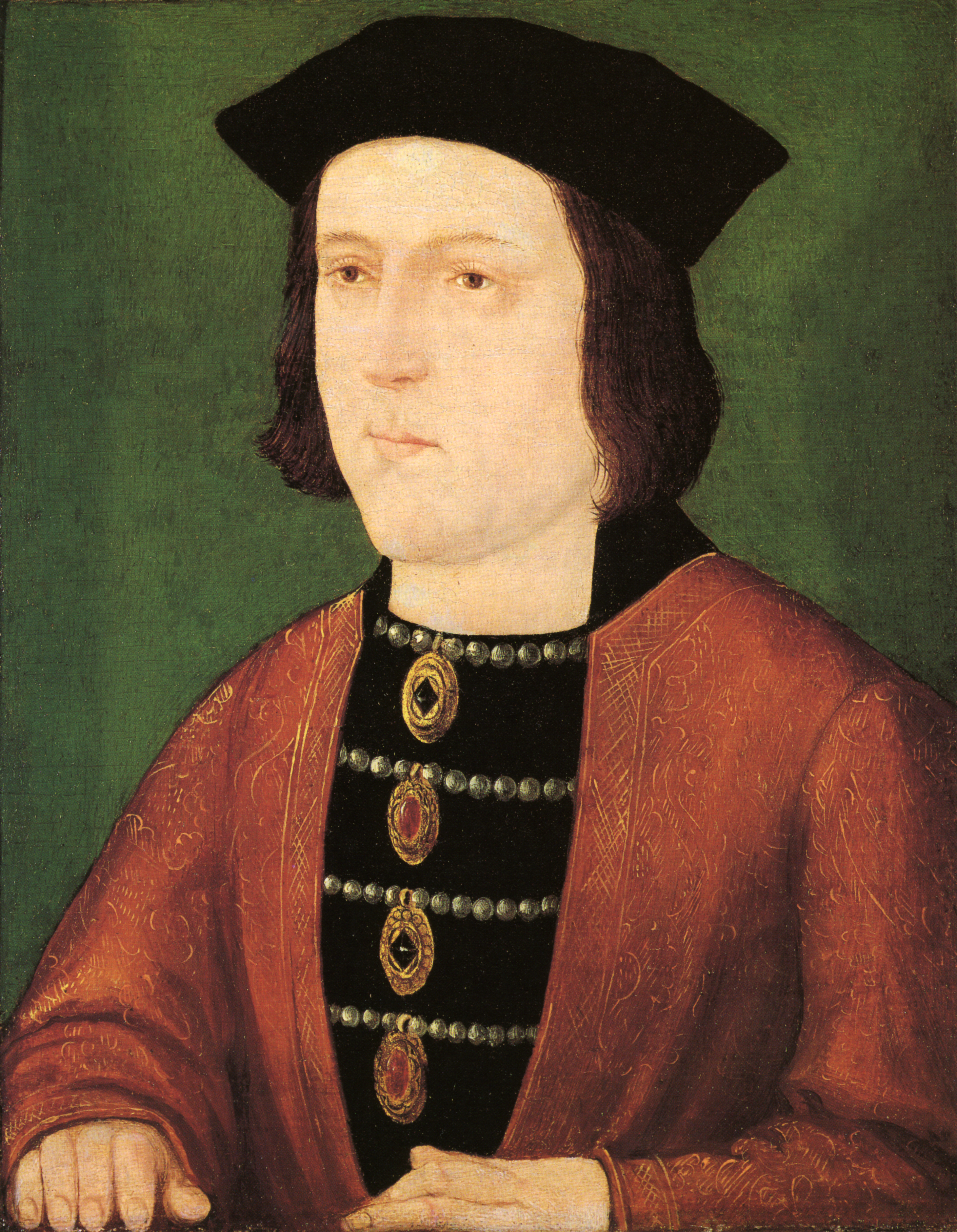 This PNG image has a thumbnail version at File: King Edward IV.jpg. Generally, the thumbnail version should be used when displaying the file from Commons, in order to reduce the file size of thumbnail images. Any edits to the image should be based on this PNG version in order to prevent generational loss, and both versions should be updated. See here for more information. King Edward IV, by Unknown artist, circa 1540. National Portrait Gallery: NPG 3542 While Commons policy accepts the use of this media, one or more third parties have made copyright claims against Wikimedia Commons in relation to the work from which this is sourced or a purely mechanical reproduction thereof. This may be due to recognition of the "sweat of the brow" doctrine, allowing works to be eligible for protection through skill and labour, and not purely by originality as is the case in the United States (where this website is hosted). These claims may or may not be valid in all jurisdictions. As such, use of this image in the jurisdiction of the claimant or other countries may be regarded as copyright infringement. Please see Commons:When to use the PD-Art tag for more information.See User:Dcoetzee/NPG legal threat for original threat and National Portrait Gallery and Wikimedia Foundation copyright dispute for more information. This tag does not indicate the copyright status of the attached work. A normal copyright tag is still required. See Commons:Licensing.